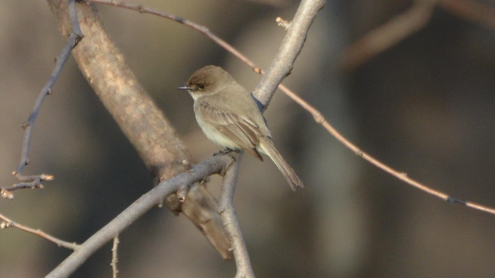 Carondelet Park 4/1/13 - went back to get a photo of the Black-and-white Warbler, but couldn't refind him so I took photos of all these wonderful birds (CM)